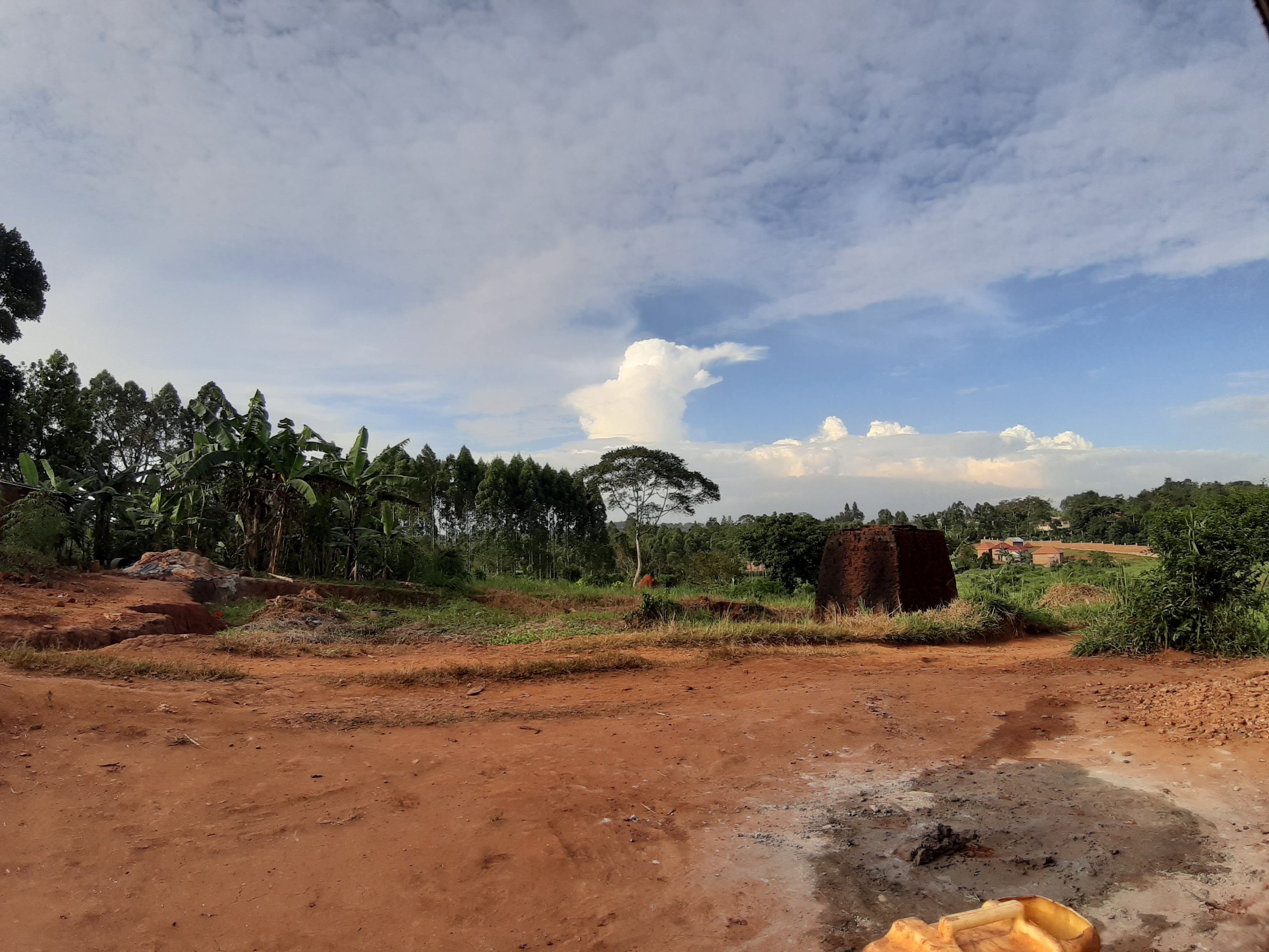 A landscape Scenery showing a "tanulu" in Luganda, a raised structure for burning bricks to make them ready for construction. In the background is an eucalyptus plantation and a banana Garden on the extreme left This is an image with the theme "Africa on the Move or Transport" from: Uganda